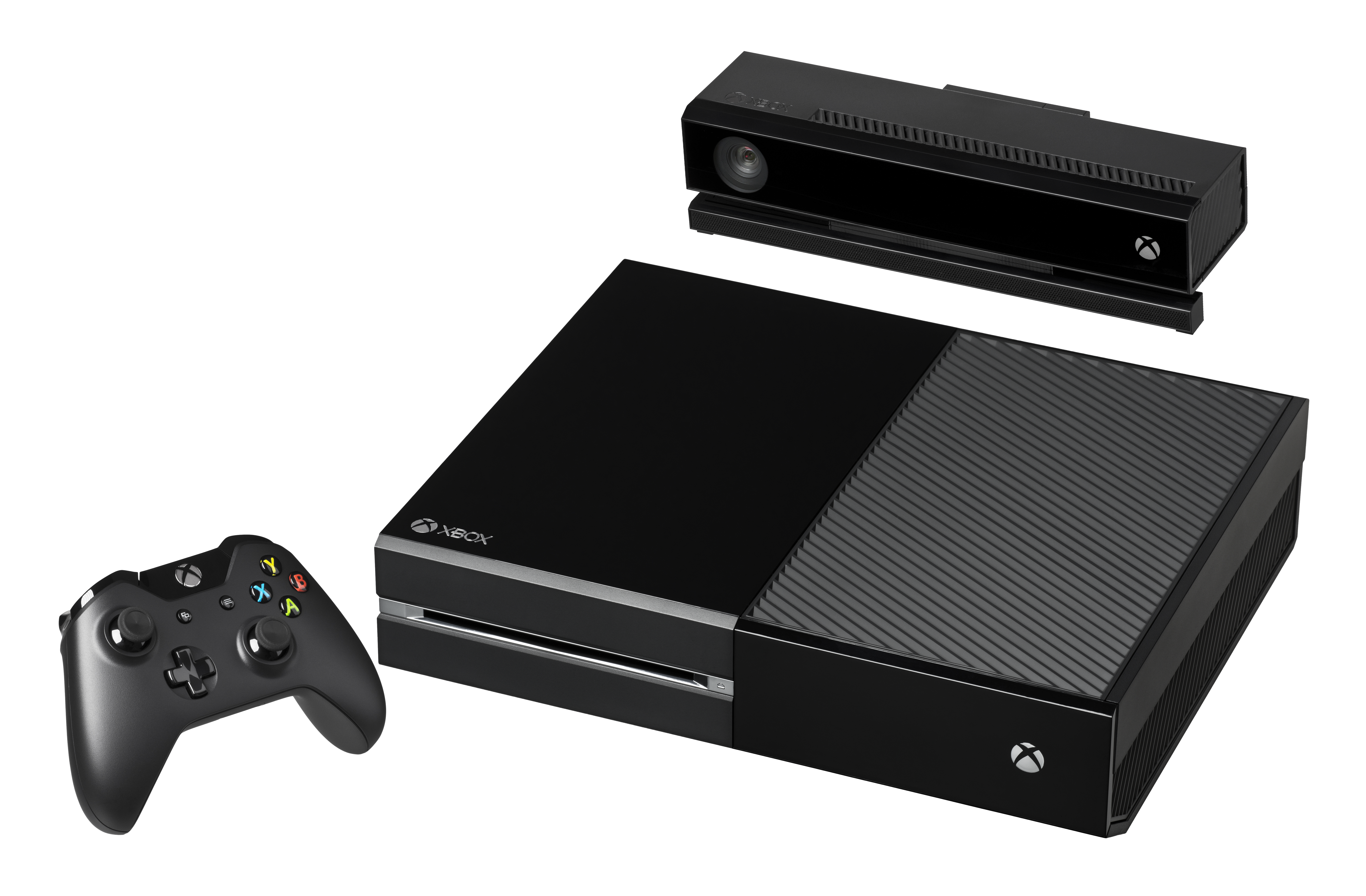 The Xbox One console, shown with the controller and the Kinect. Released in 2013 in North America and select markets, it is the third video game console made by Microsoft and succeeds the Xbox 360.